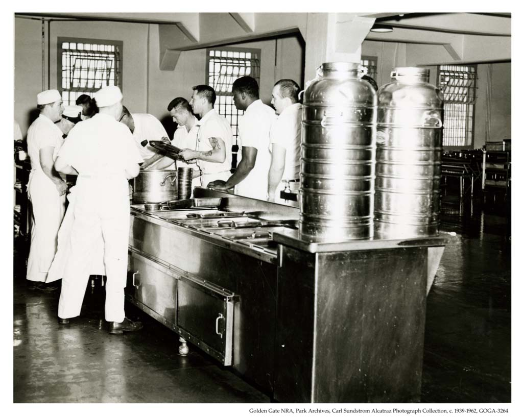 Alcatraz dining hall interior.